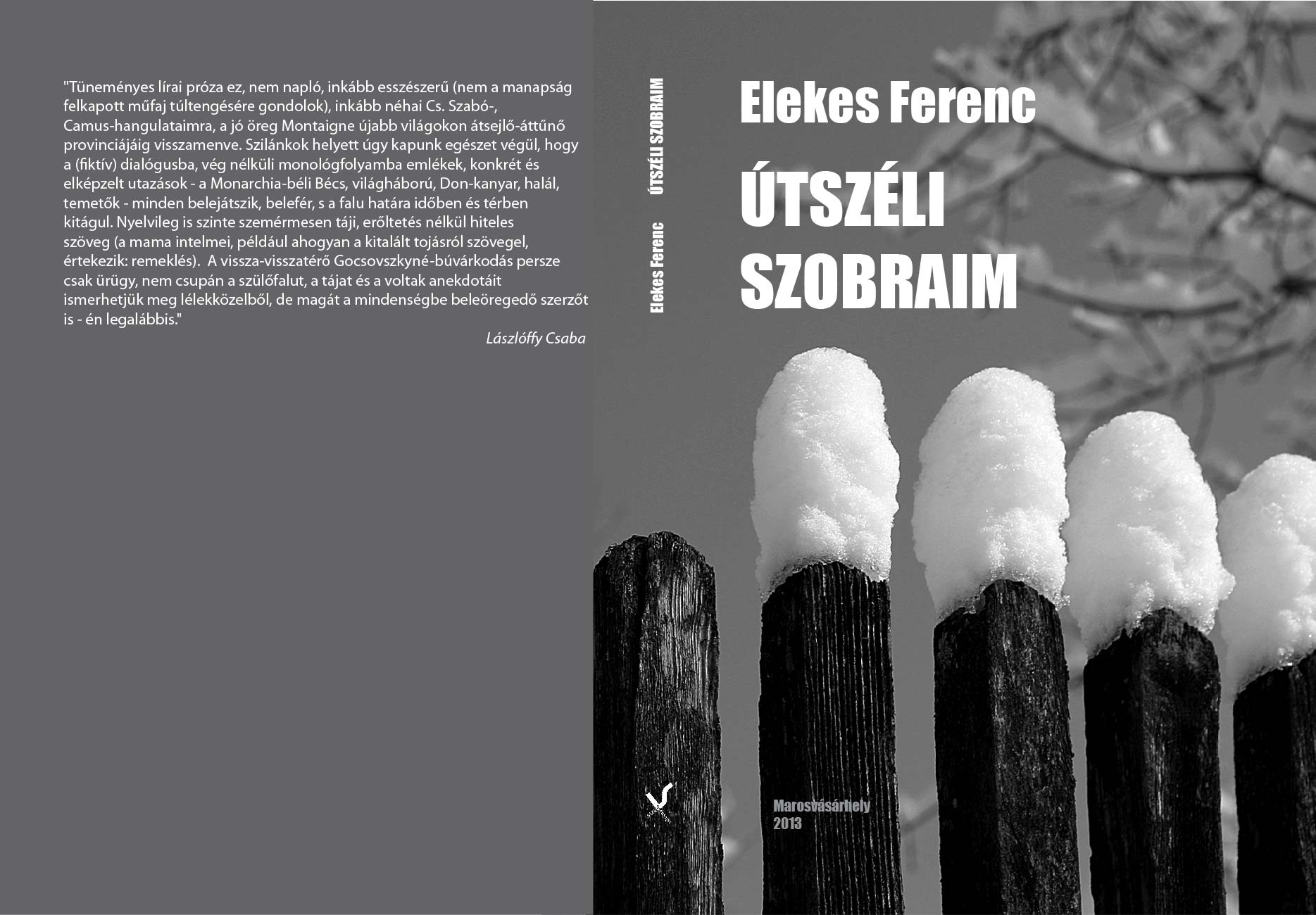 Ferenc Elekes's book cover 2013